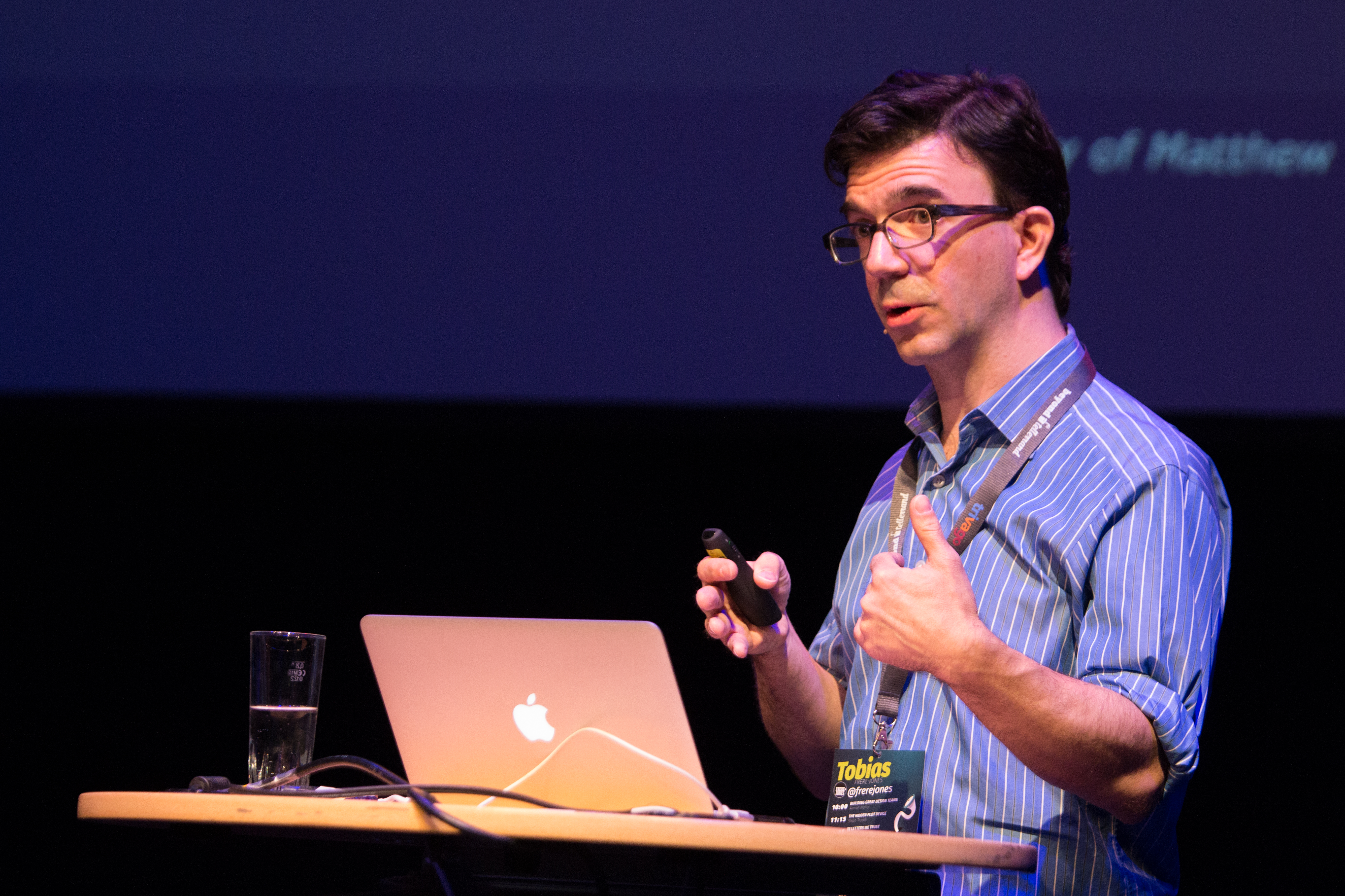 Tobias Frere-Jones at the Beyond Tellerand Berlin, 2015